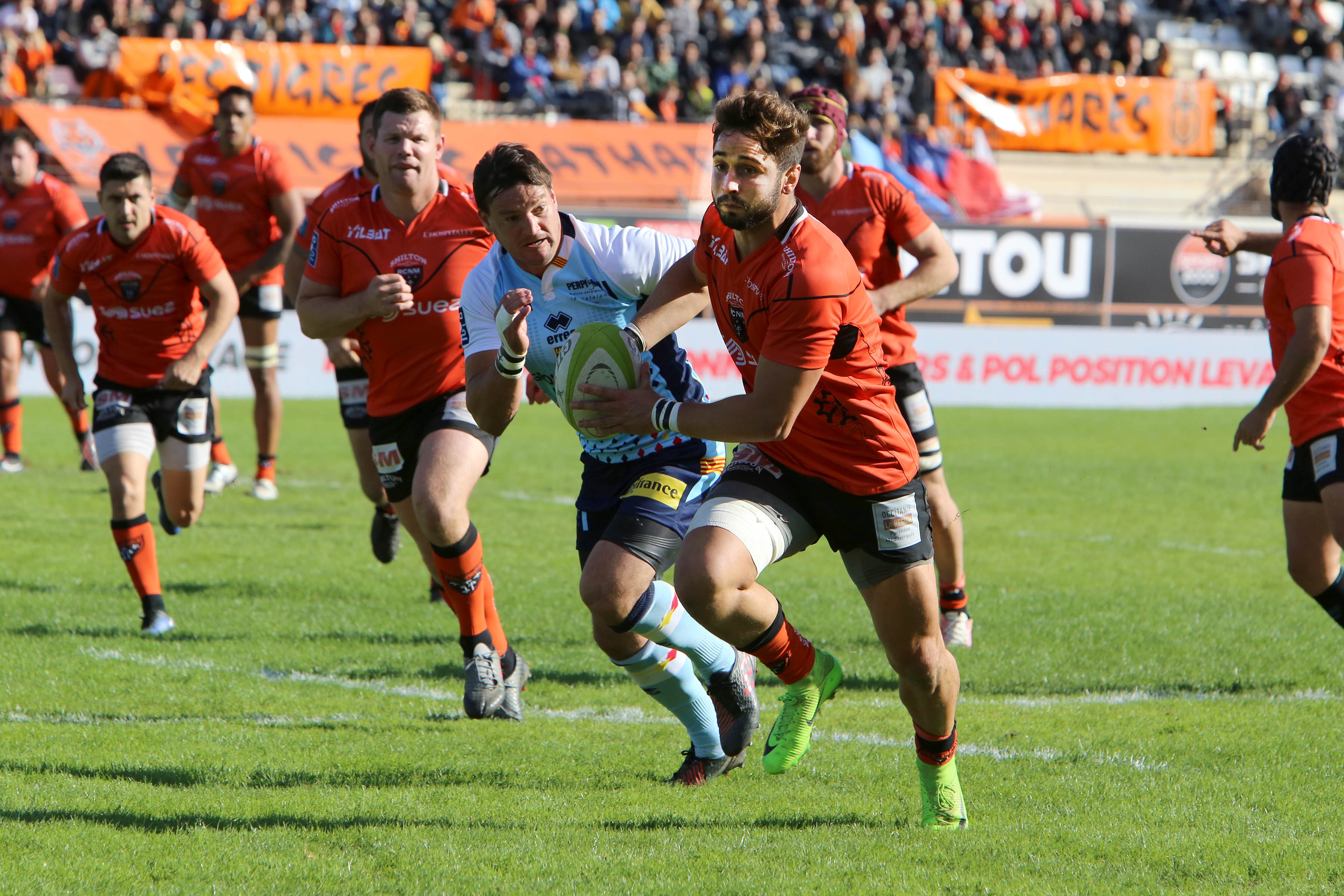 2017–18 Rugby Pro D2 season — 22 October 2017, Parc des Sports et de l'Amitié. Match between: RC Narbonne — USAP Perpignan